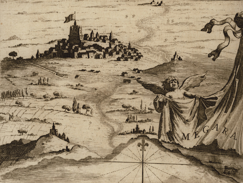 Vincenzo Coronelli - Repubblica di Venezia p. IV. Citta, Fortezze, ed altri Luoghi principali dell' Albania, Epiro e Livadia, e particolarmente i posseduti da Veneti descritti e delineati dal p. Coronelli, Venice, 1688.